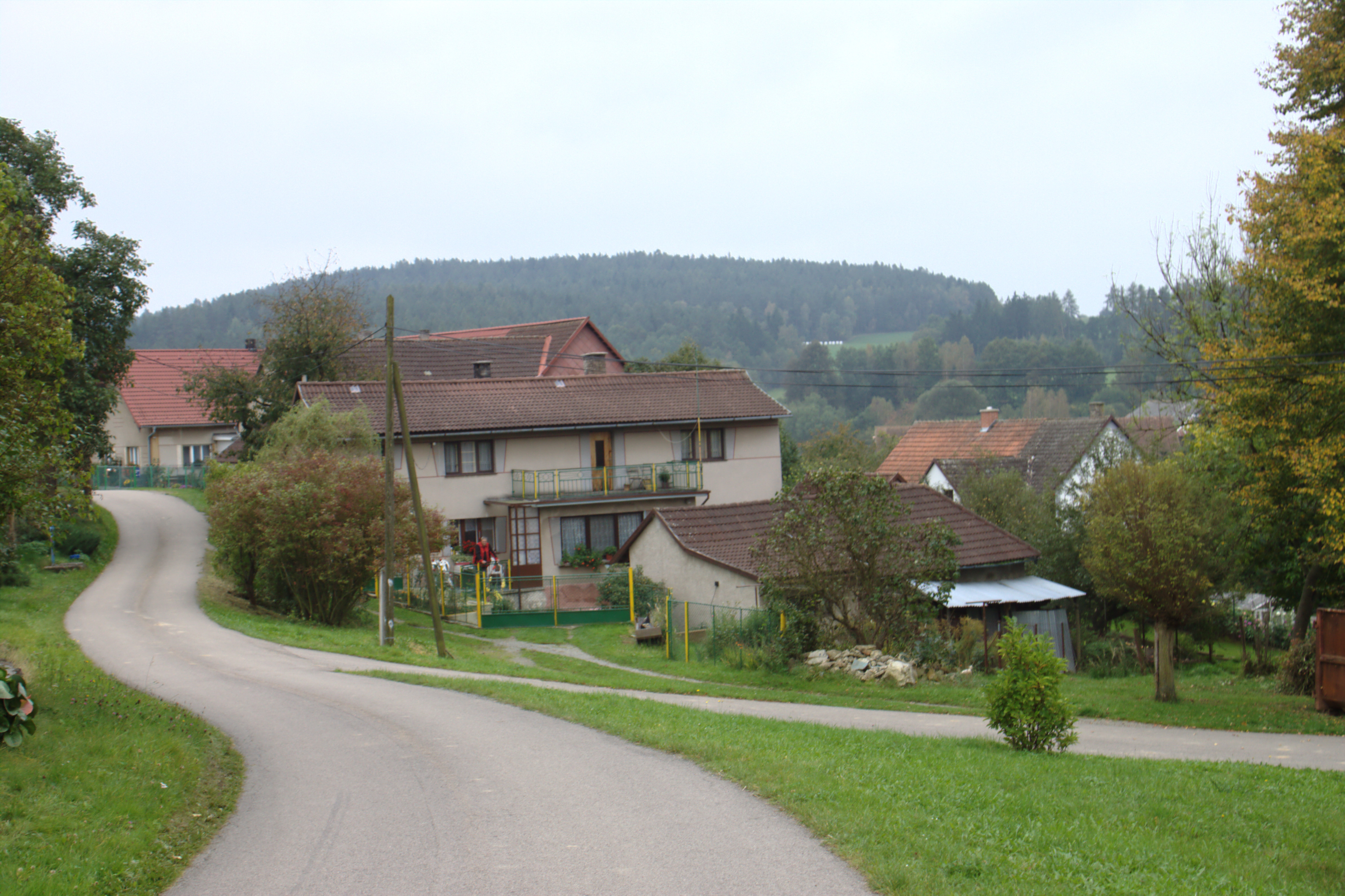 Main road in Bořkovice, Central Bohemia, CZ